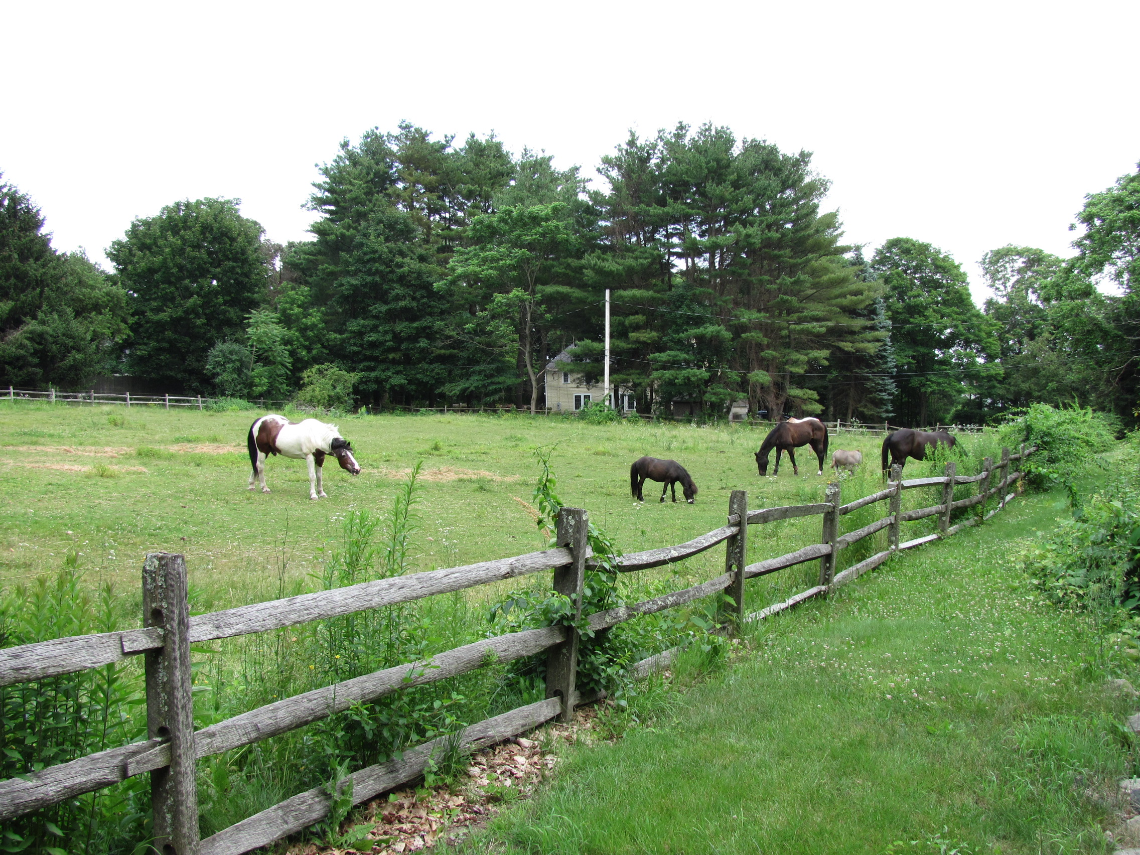 Pasture on Old Billerica Road, Bedford Massachusetts